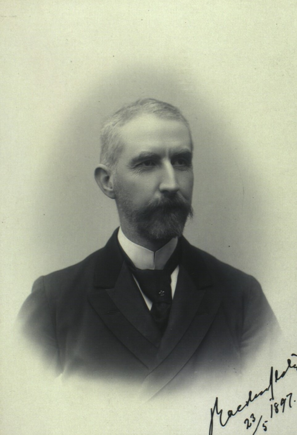 Vilhelm Bardenfleth (1850-1933), Danish jurist, civil servant, and district officer